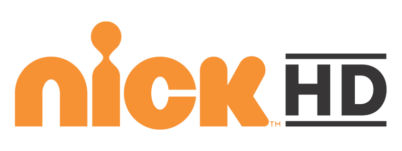 This is the Nick HD logo use today.